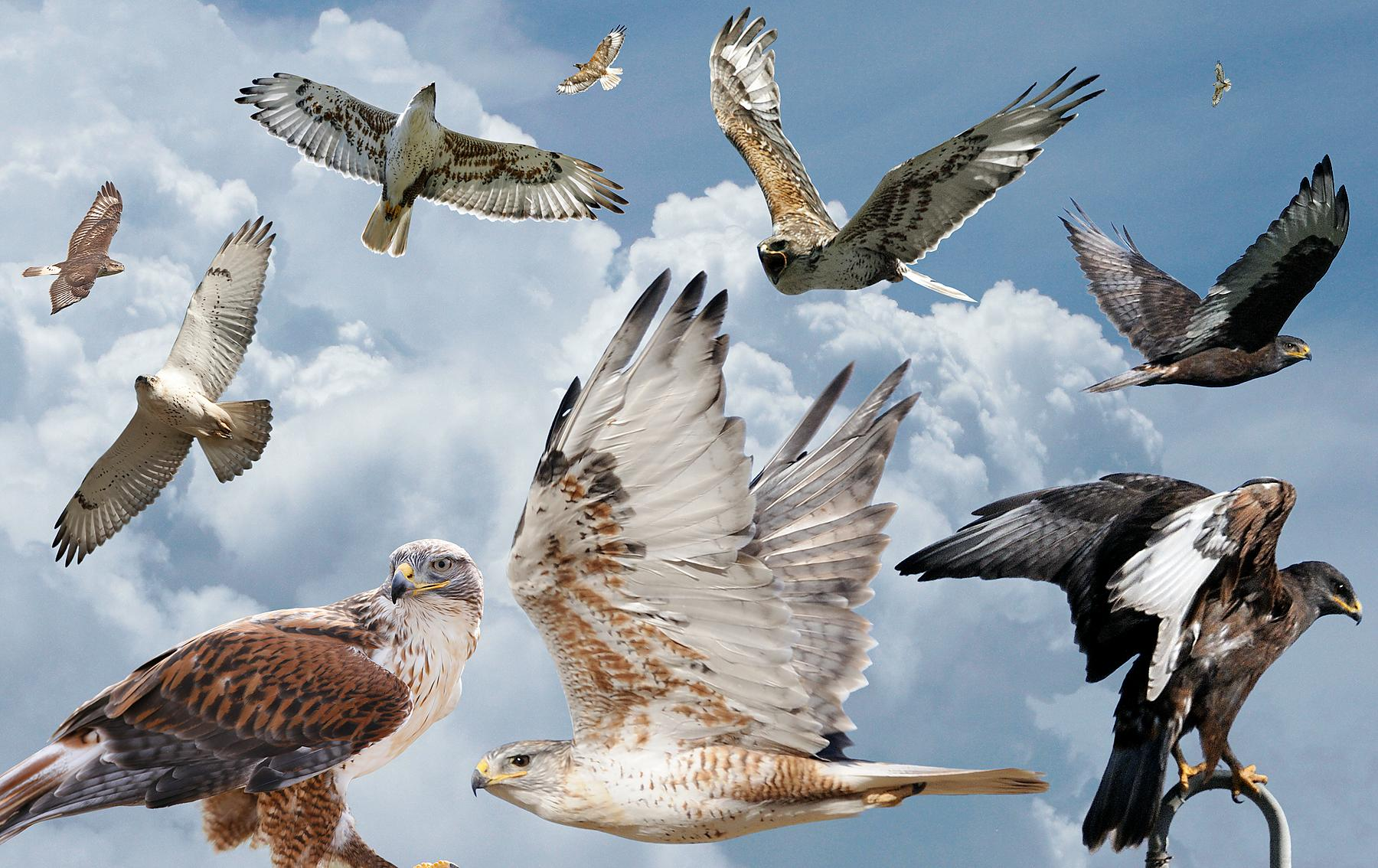 Ferruginous Hawk From The Crossley ID Guide Eastern Birds